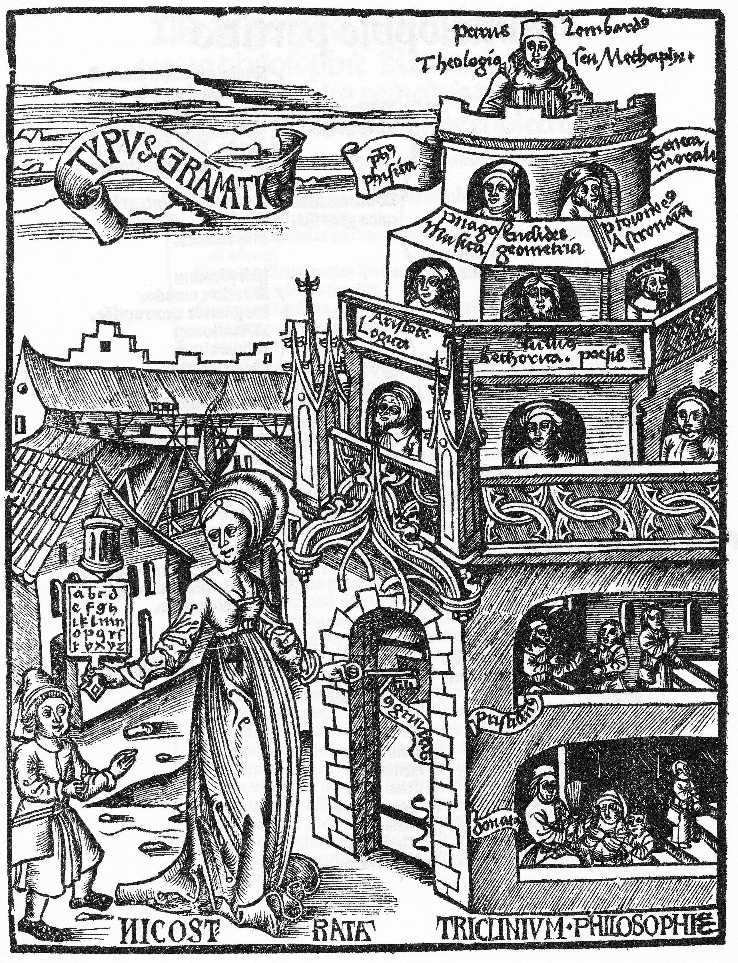 Woodcut entitled Typus gram(m)atic(a)e (“Image of grammar”), showing an allegory/personification of the traditional grammar and the traditional liberal arts, from Gregor Reisch, Margarita philosophica, 4th authorized edition Basel 1517, book I tractatus I, page VI.